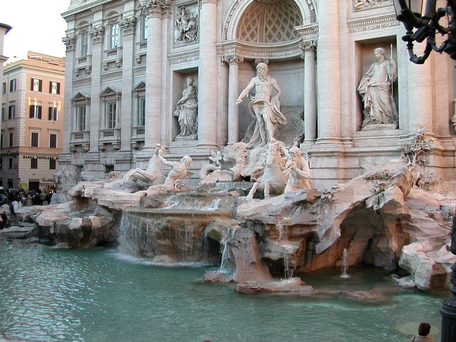 This image was copied from it. The original description was: la Fontana di Trevi a Roma.